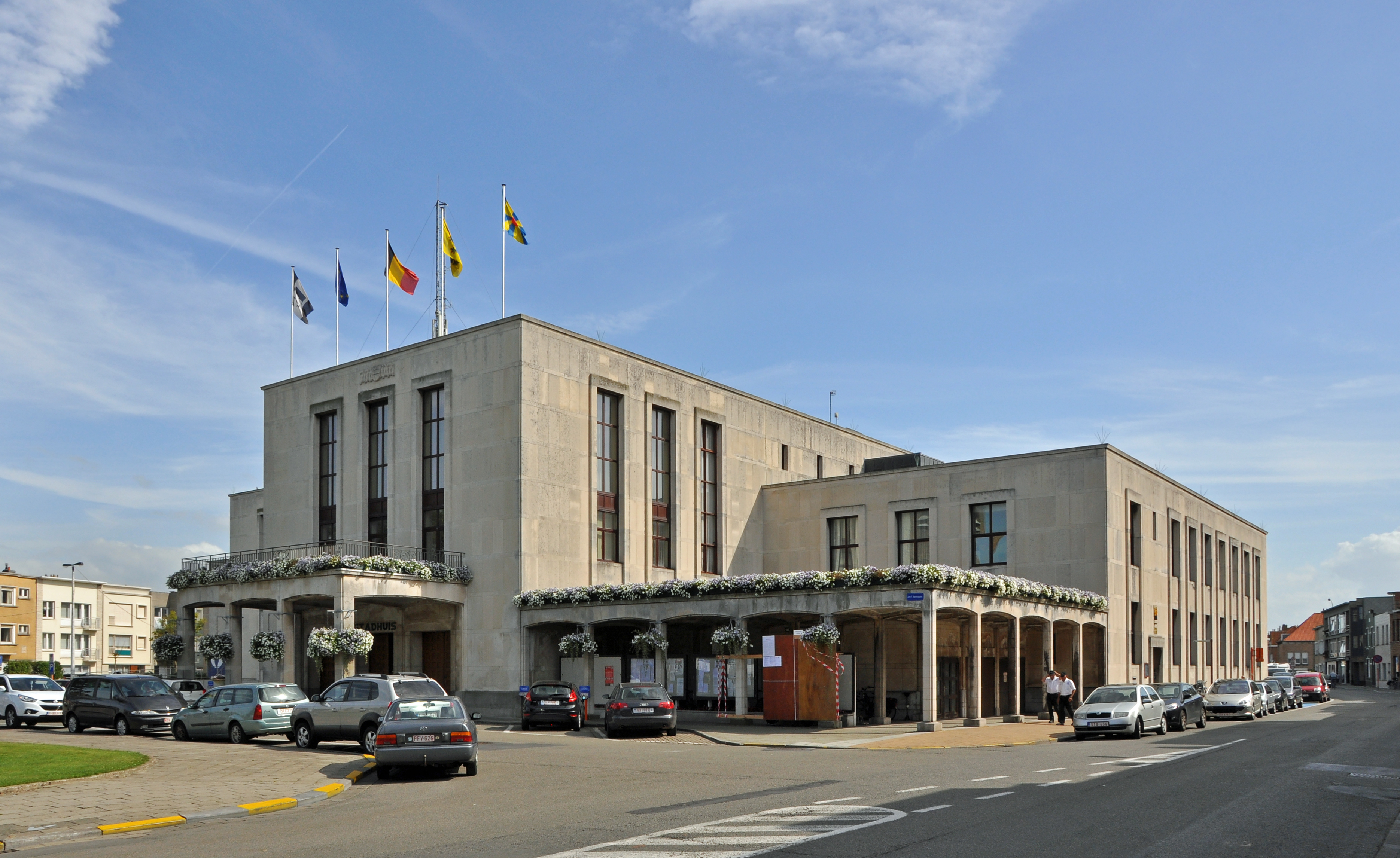 Blankenberge (Belgium): town hall